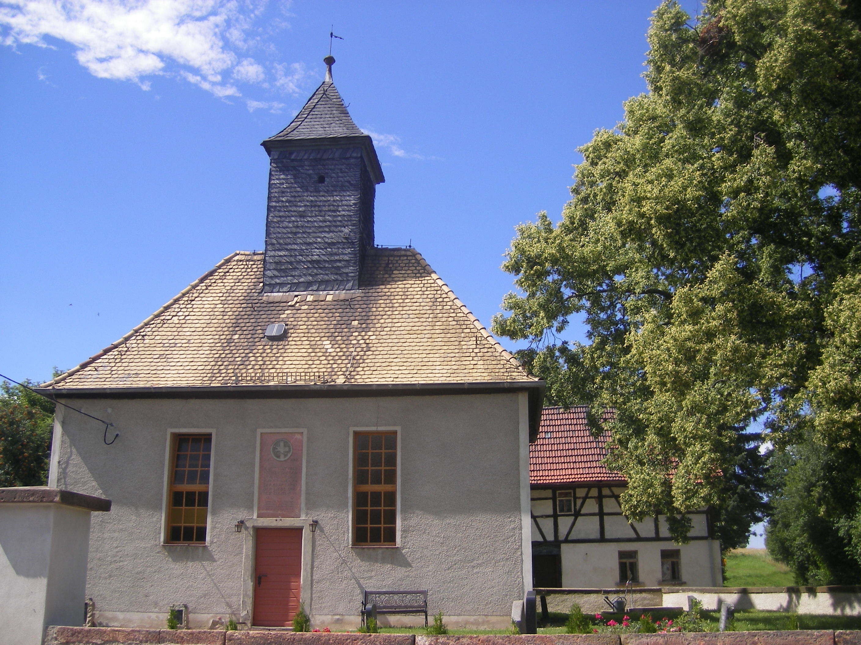 Church in Zumroda near Altenburg/Thuringia